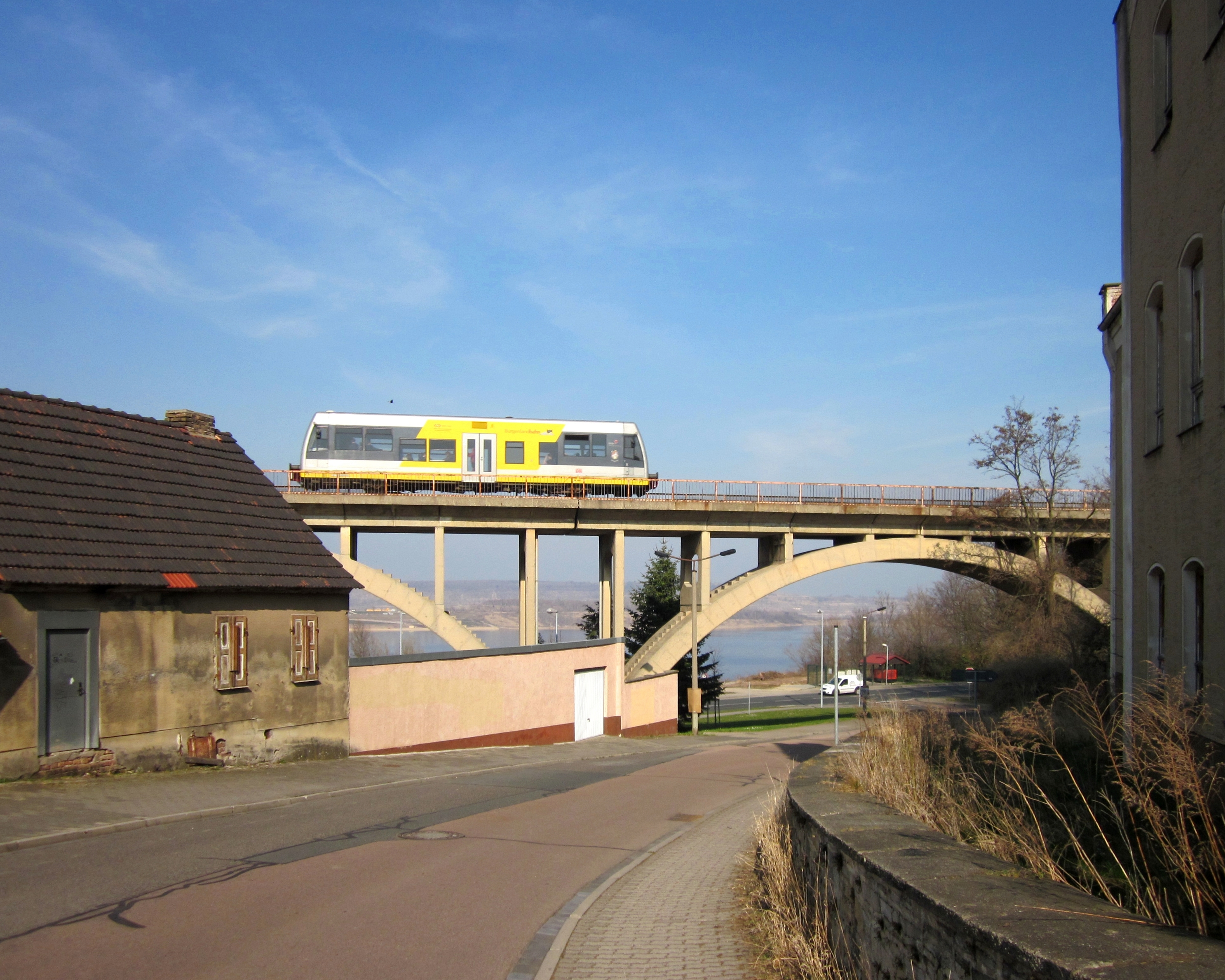 Railway viaduct in Mücheln/Geiseltal (district of Saalekreis, Saxony-Anhalt) with Lake Geiseltal in the background